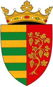 CoA of Rajon Ștefan Vodă